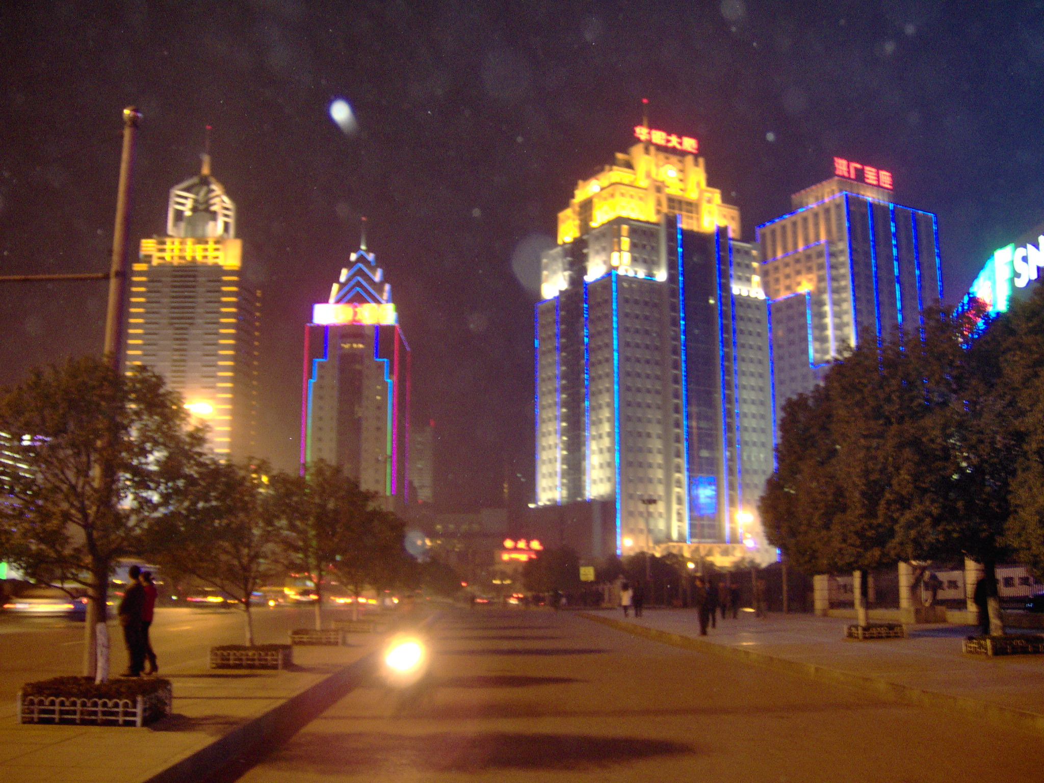 Night photo of a major square in the Wuchang district I took on my 2007 trip to China.